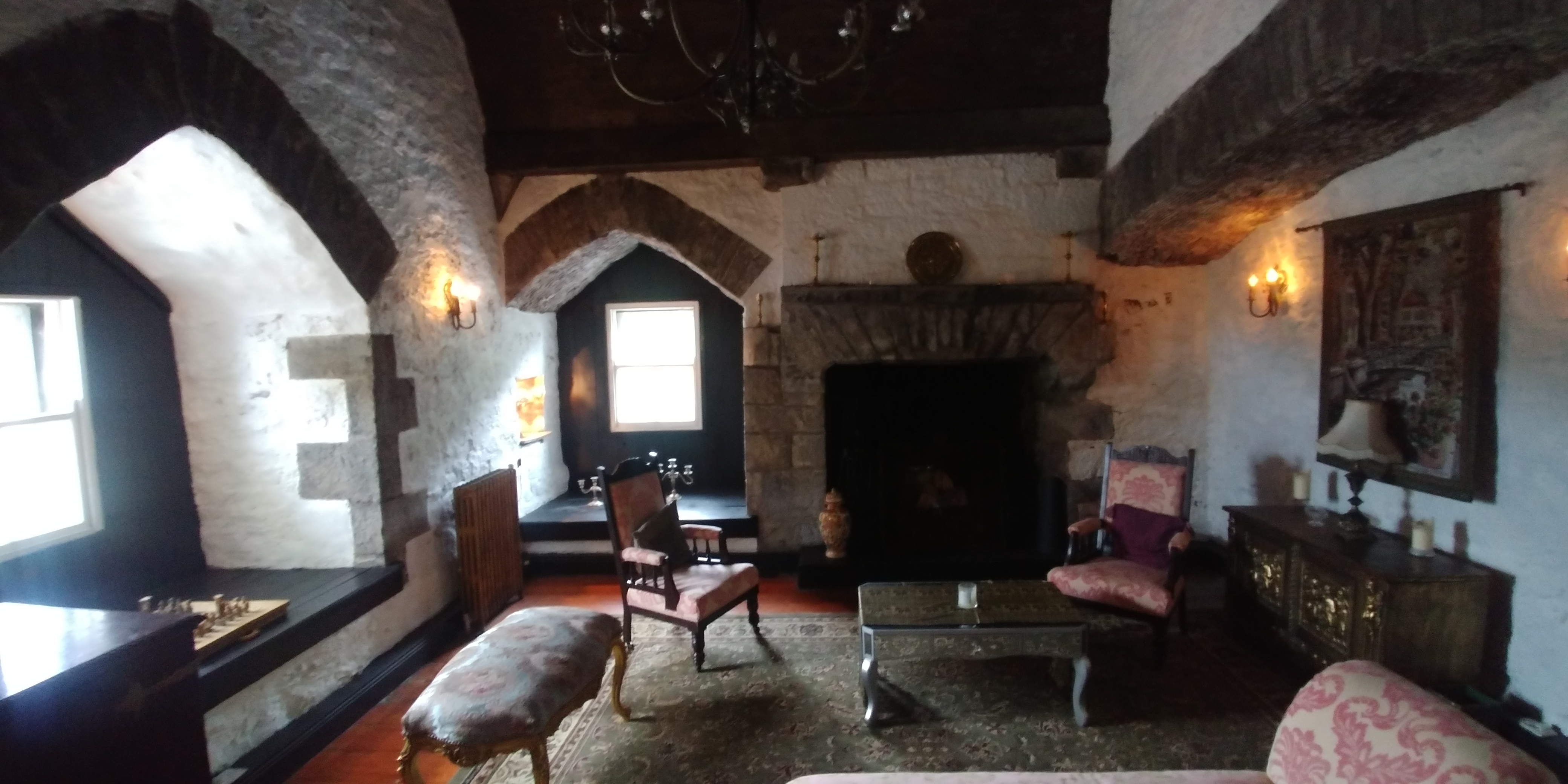 An interior shot of Cloonacauneen Castle, County Galway, Ireland.